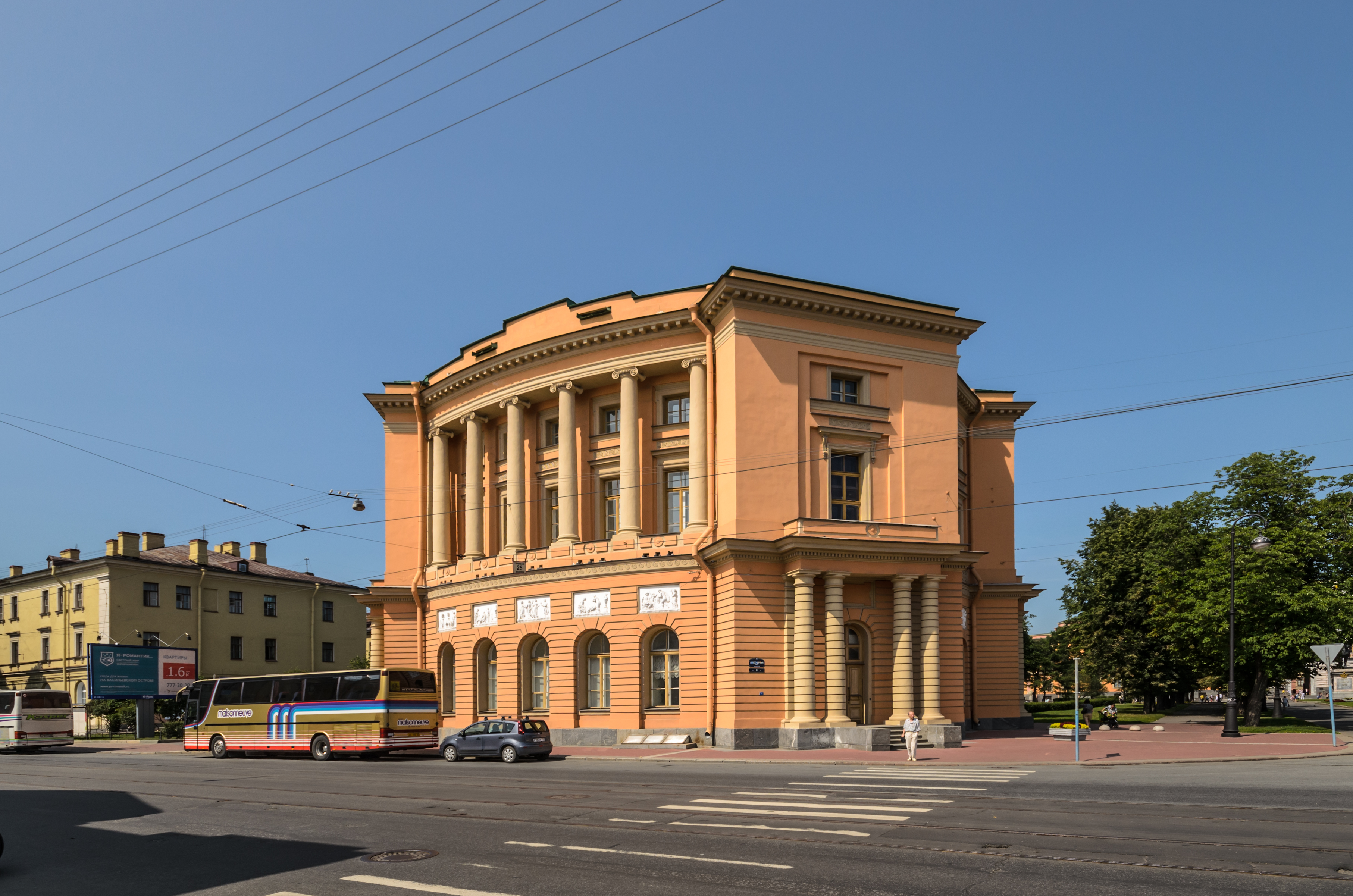 Saint Michael's Castle Guardhouse in Saint Petersburg